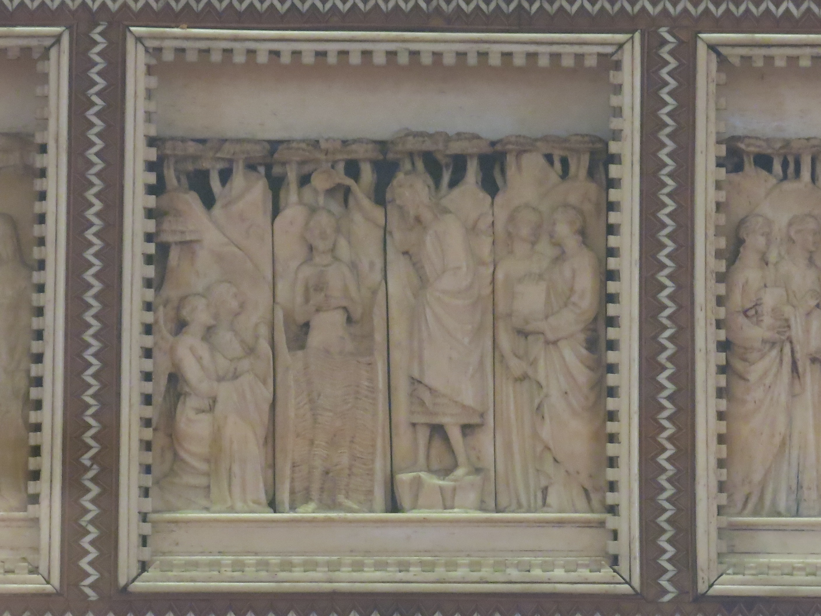 Poissy's reredo - Baptism of Jesus-Christ. Louvre museum (Paris, France).